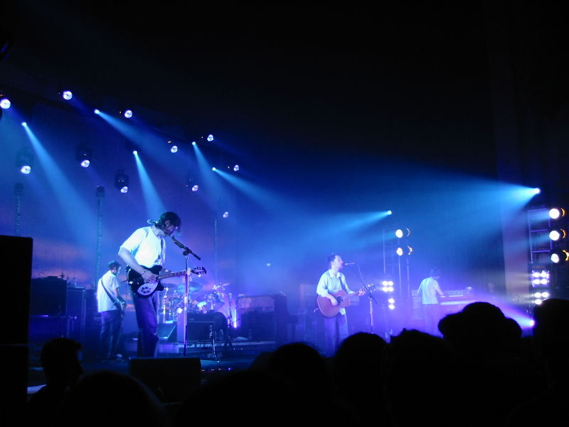 Radiohead live at Portugal